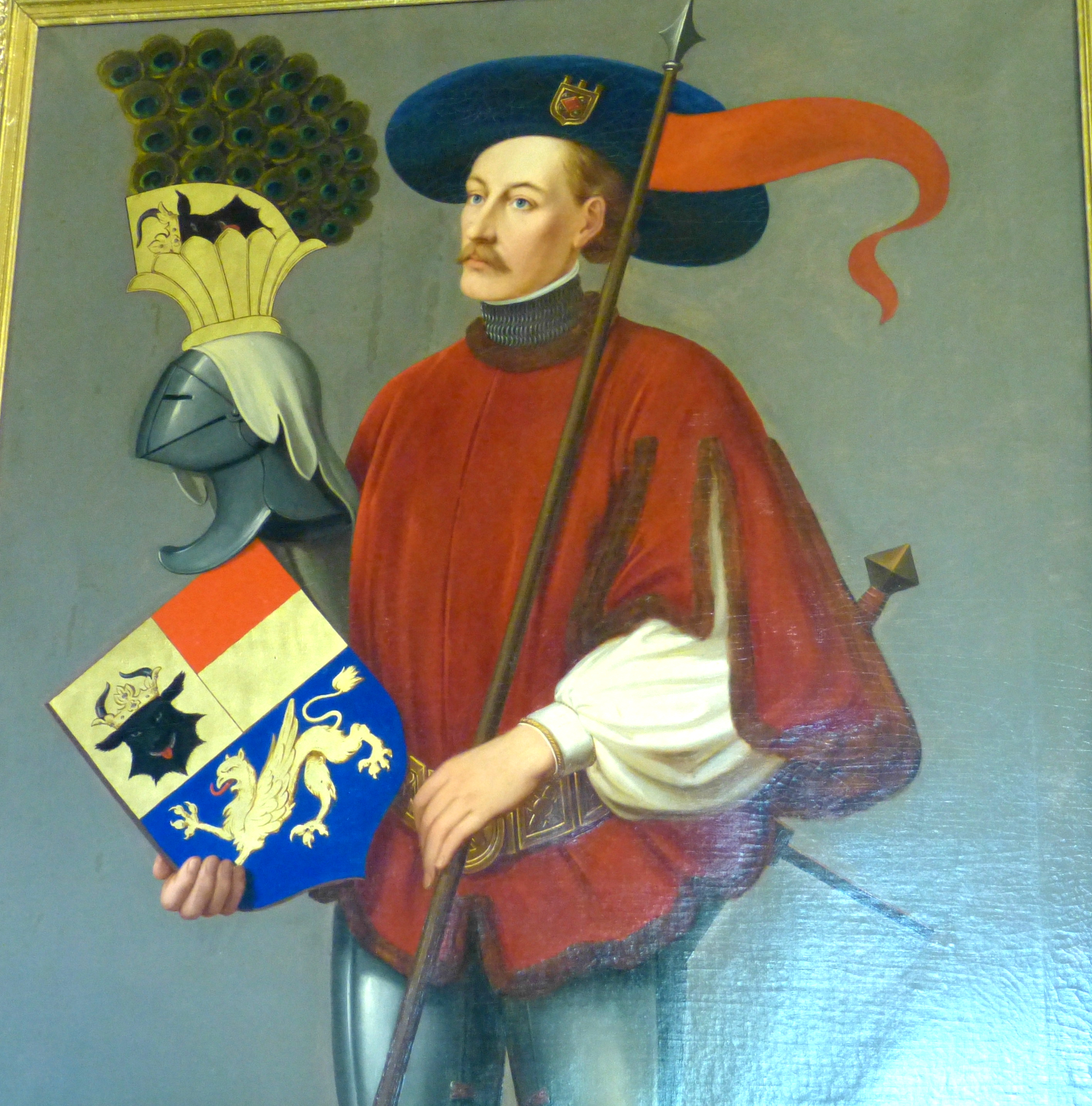 Schwerin Castle ( Mecklenburg ). Portrait gallery of the dukes of Mecklenburg - Portrait of Johann IV, duke of Mecklenburg ( + 1422 )